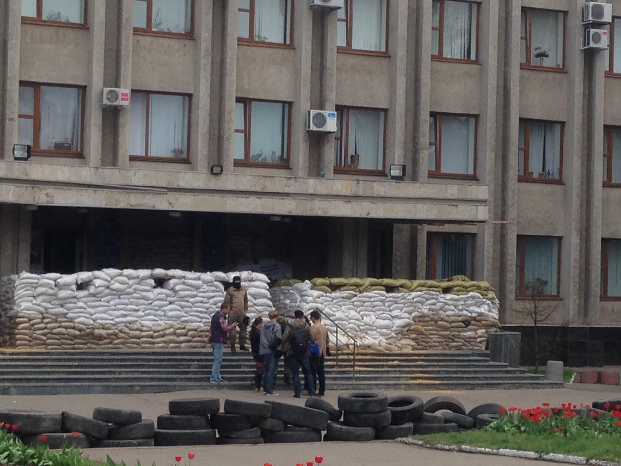 Sloviansk, Donetsk oblast, Ukraine, during the Sloviansk standoff. The author of this photo, Aleksandr Sirota, visited his parents in the city on Easter holidays.